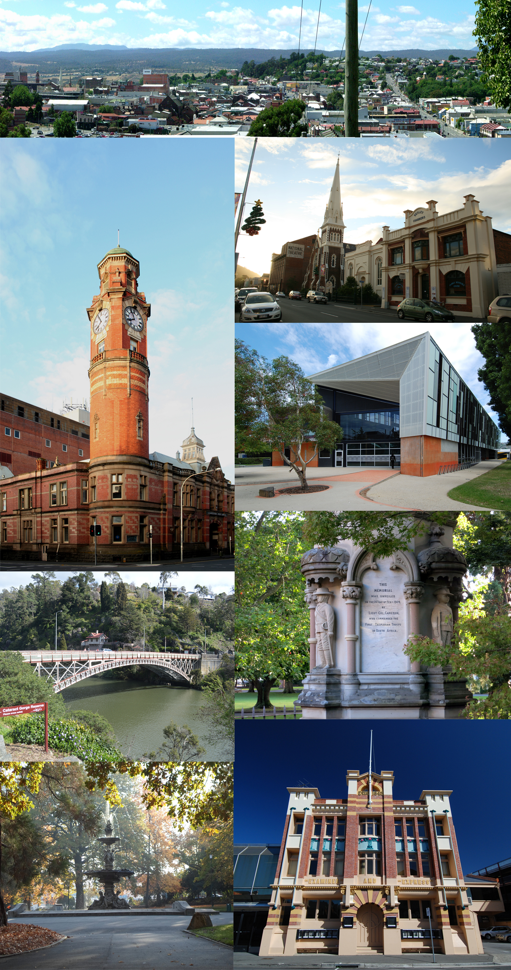 Montage of Launceston, Tasmania. File:MidYorkStHill.jpg File:Launceston-Tasmania-Australia02.JPG File:Launceston-Tasmania-Australia03.JPG File:ATC_Inveresk_Tasmania_2010.jpg File:Dedication_panel_on_the_Launceston_Boer_War_Memorial_March_2015.jpg File:Launceston_King´s_Bridge_001.JPG File:The_Barbezat_Fountain_in_Prince's_Square,_Launceston.JPG File:The_Examiner_Launceston_2010.jpg